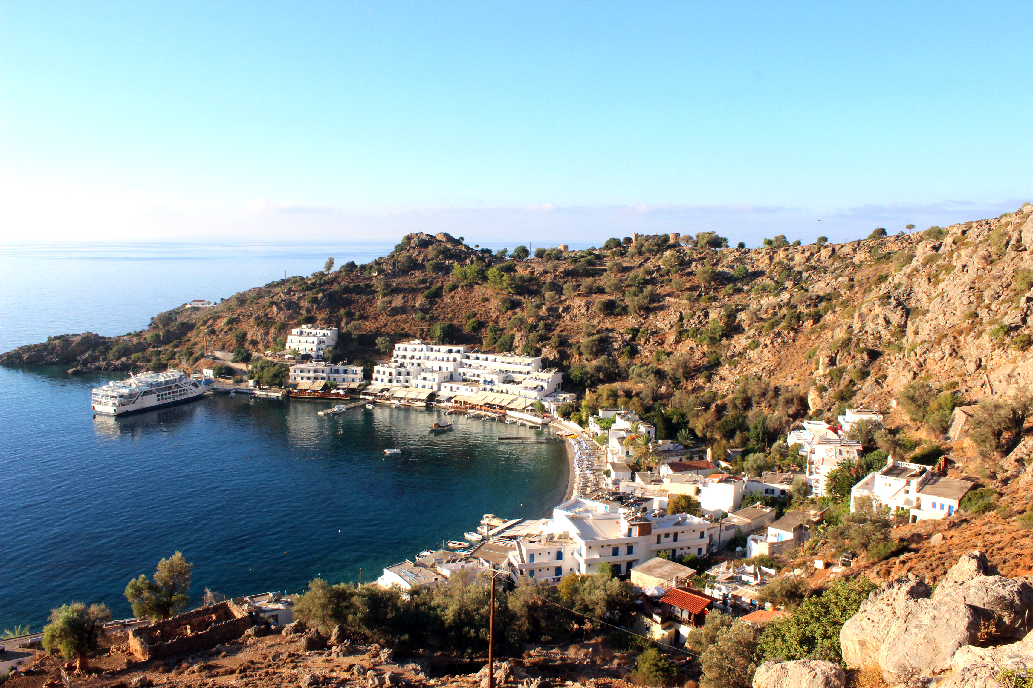 Distant view of Loutró (Chaniá), Crete